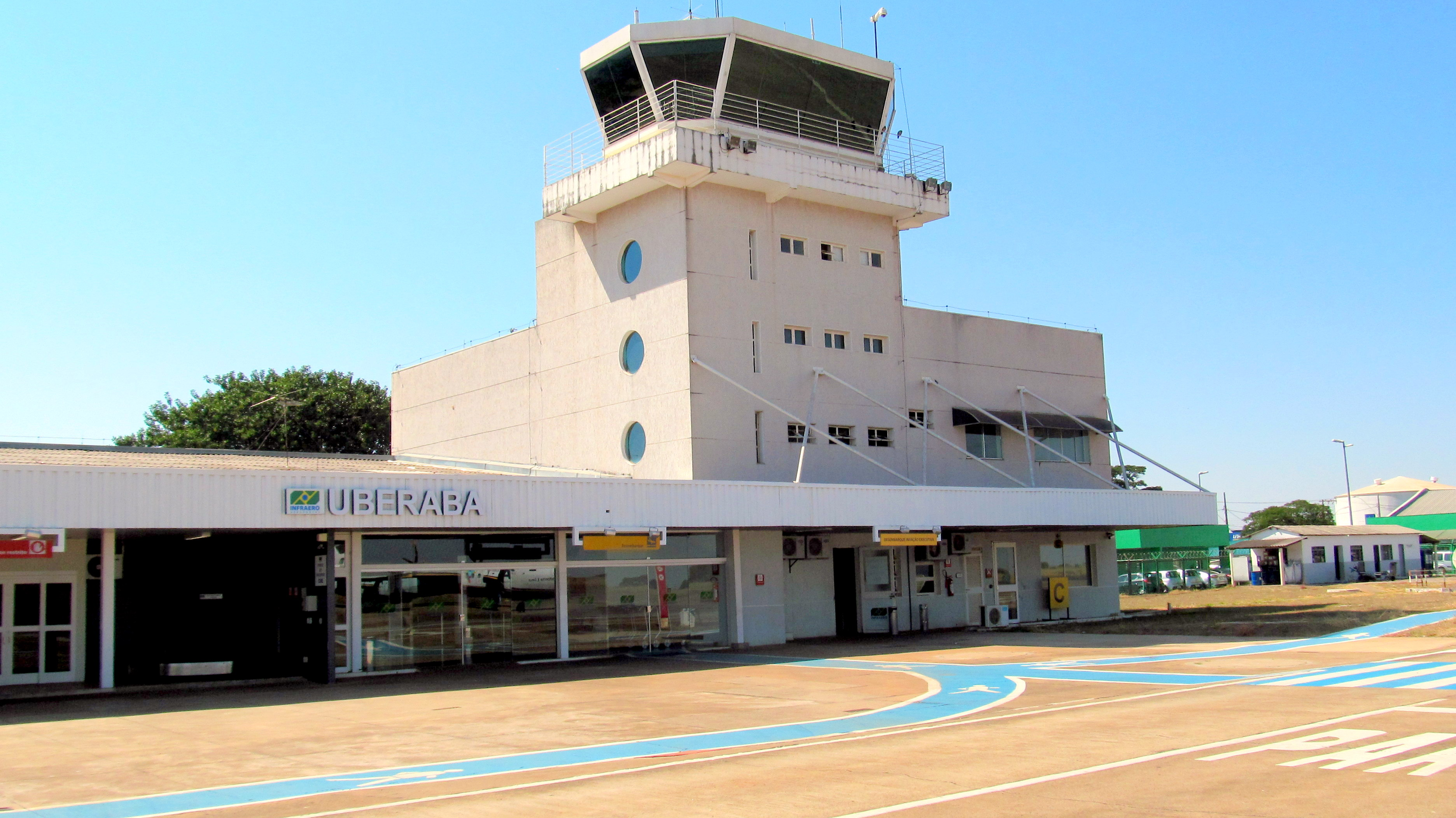 Uberaba Airport (UBA) control tower, Minas Gerais, Brazil